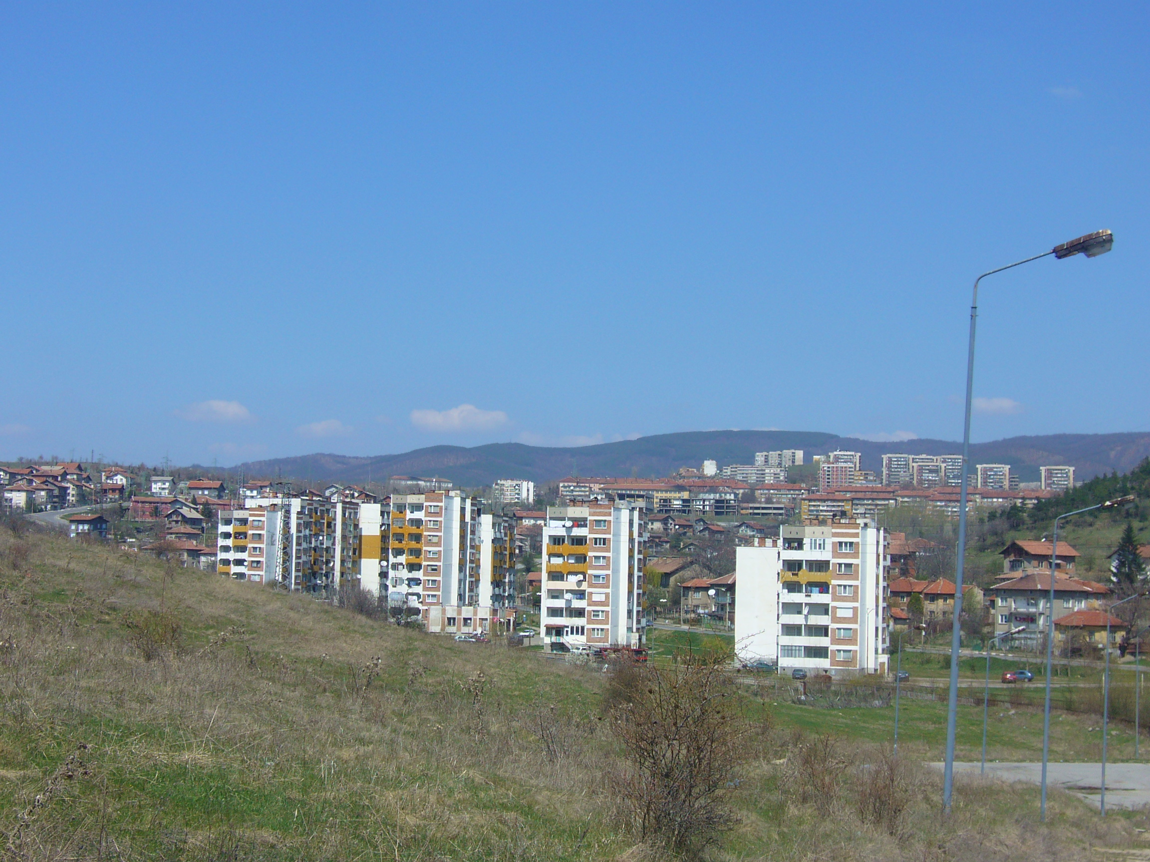 View at Dzhelyova Mahala housing estate and part of Minyor housing estate. Bobov dol, Bulgaria